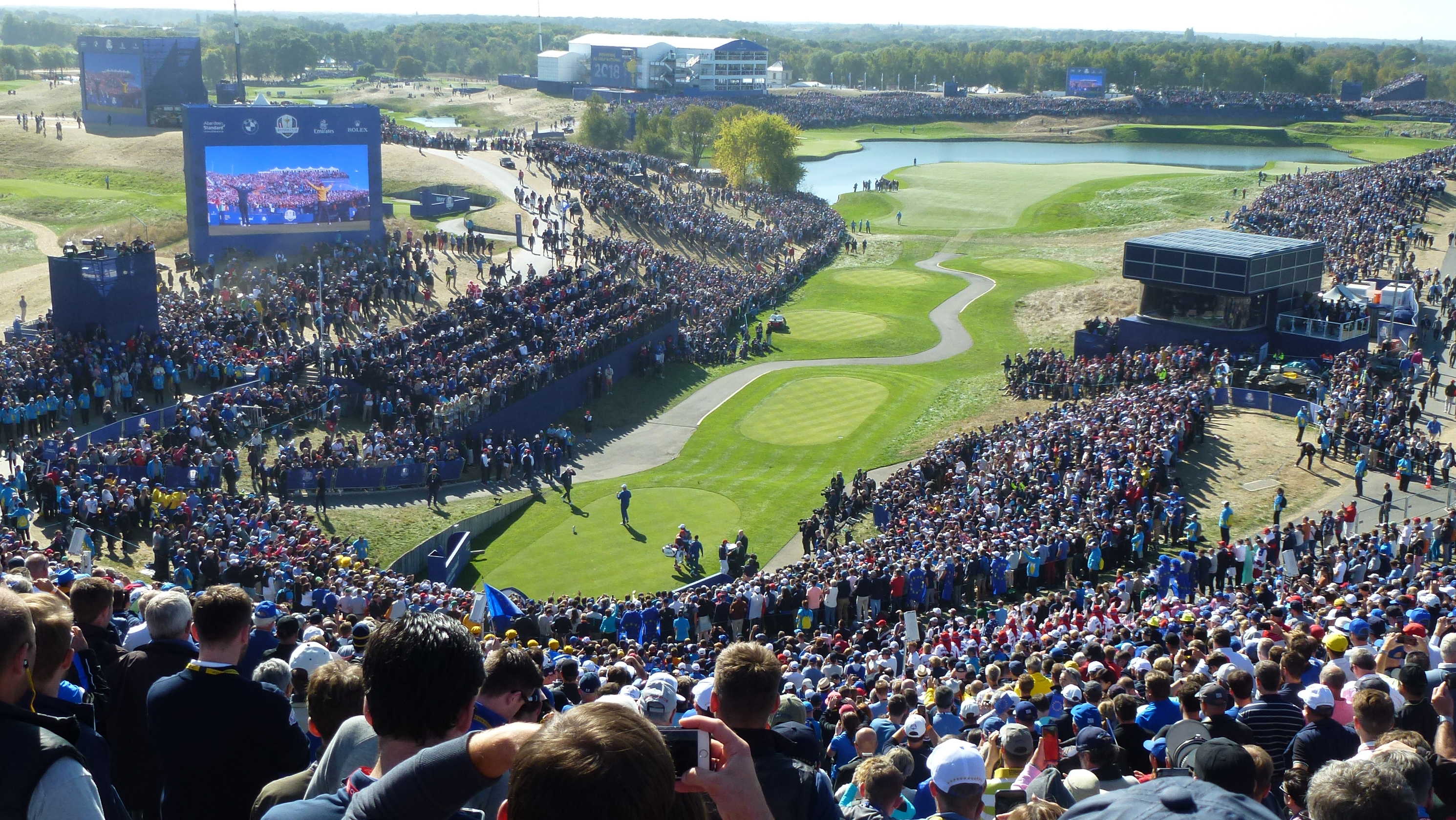 View from the Grand Stand at the Ryder Cup 2018 at Le Golf National in France.